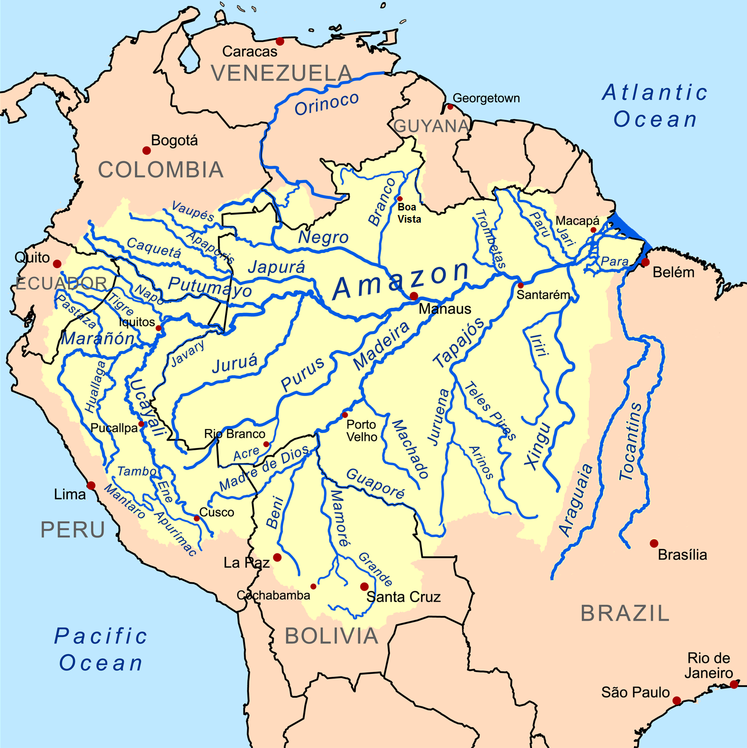 This is a map of the Amazon River drainage basin.